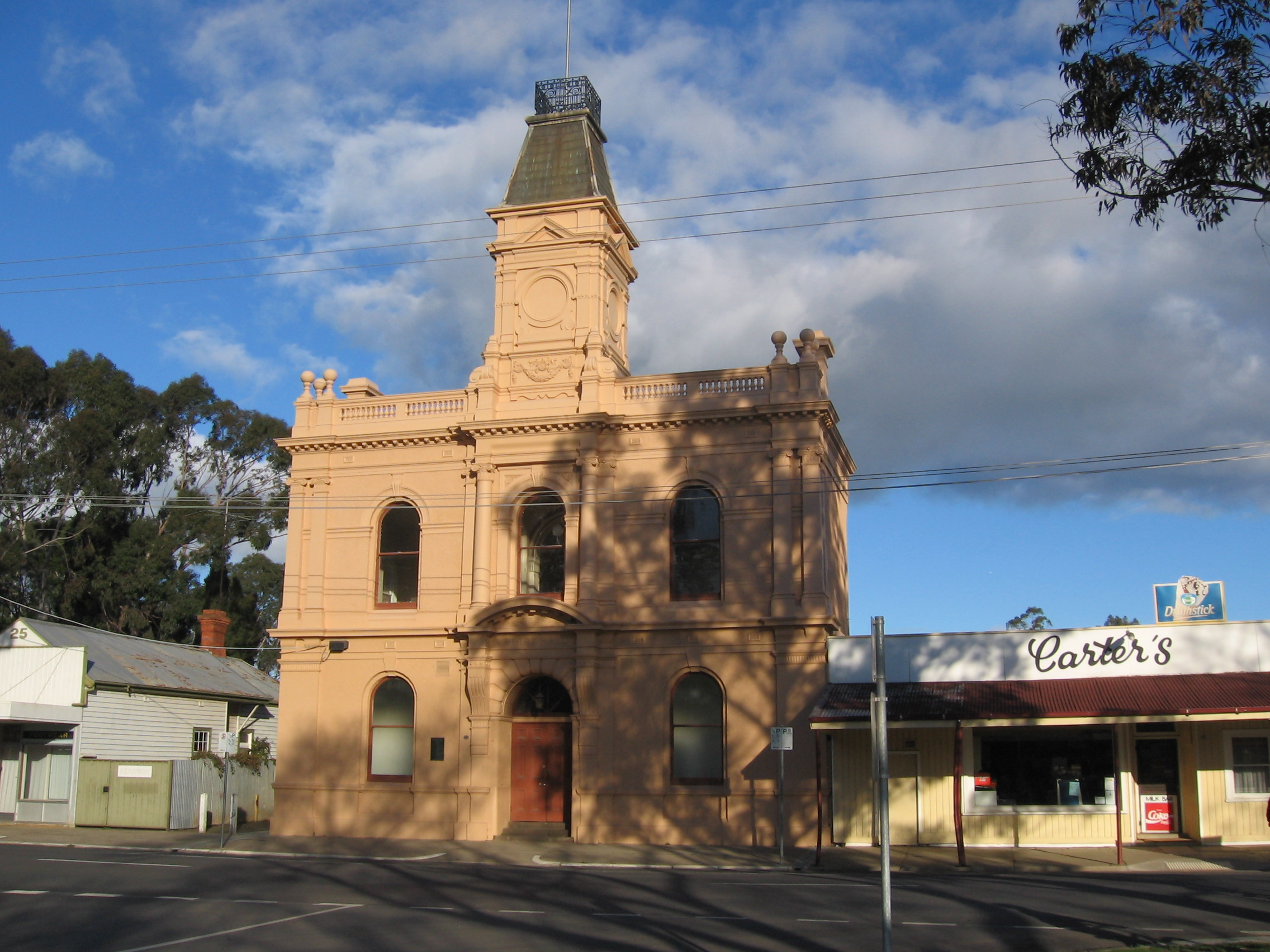 Former Shire Hall at Yea, Victoria